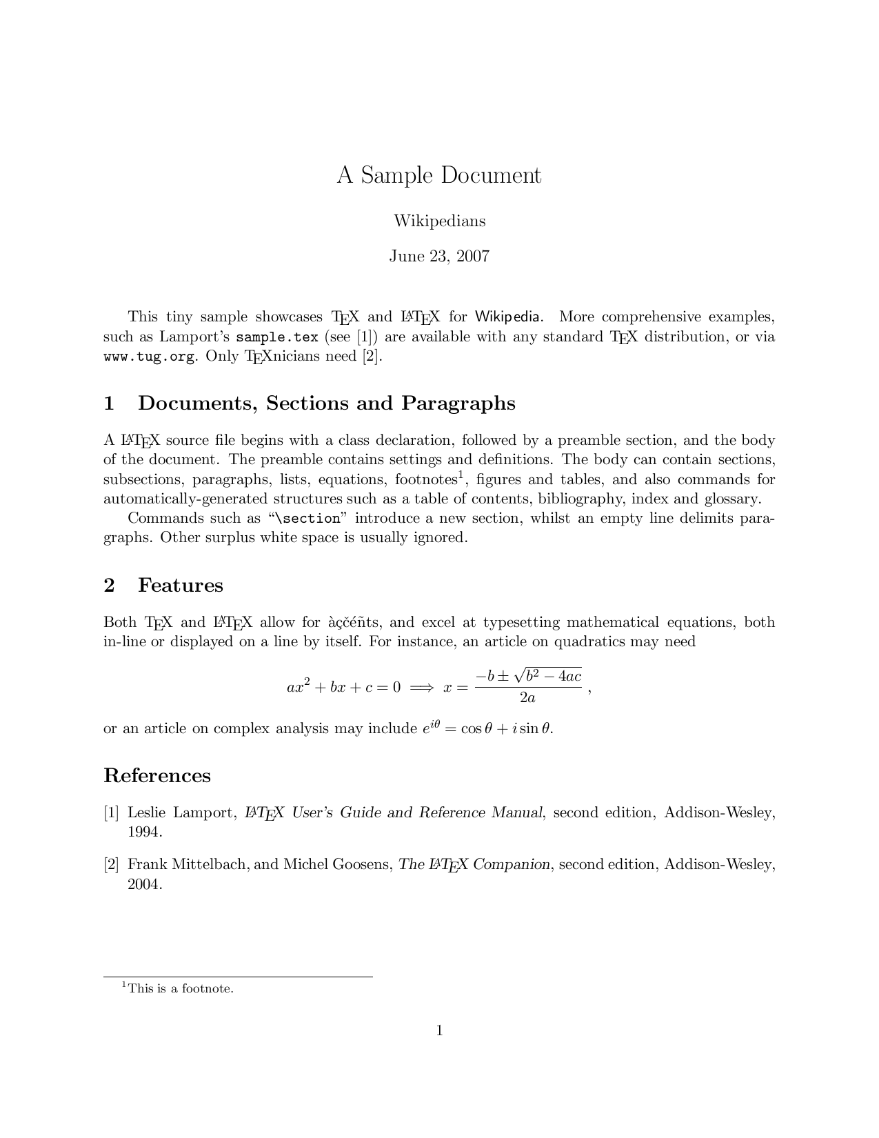 A sample page of LaTeX, rasterized into a nice, antialiased PNG by dvipng. dvipng.exe LaTeX_sample.dvi -Q9 -D150 -T8.5in,11in -O1in,1in